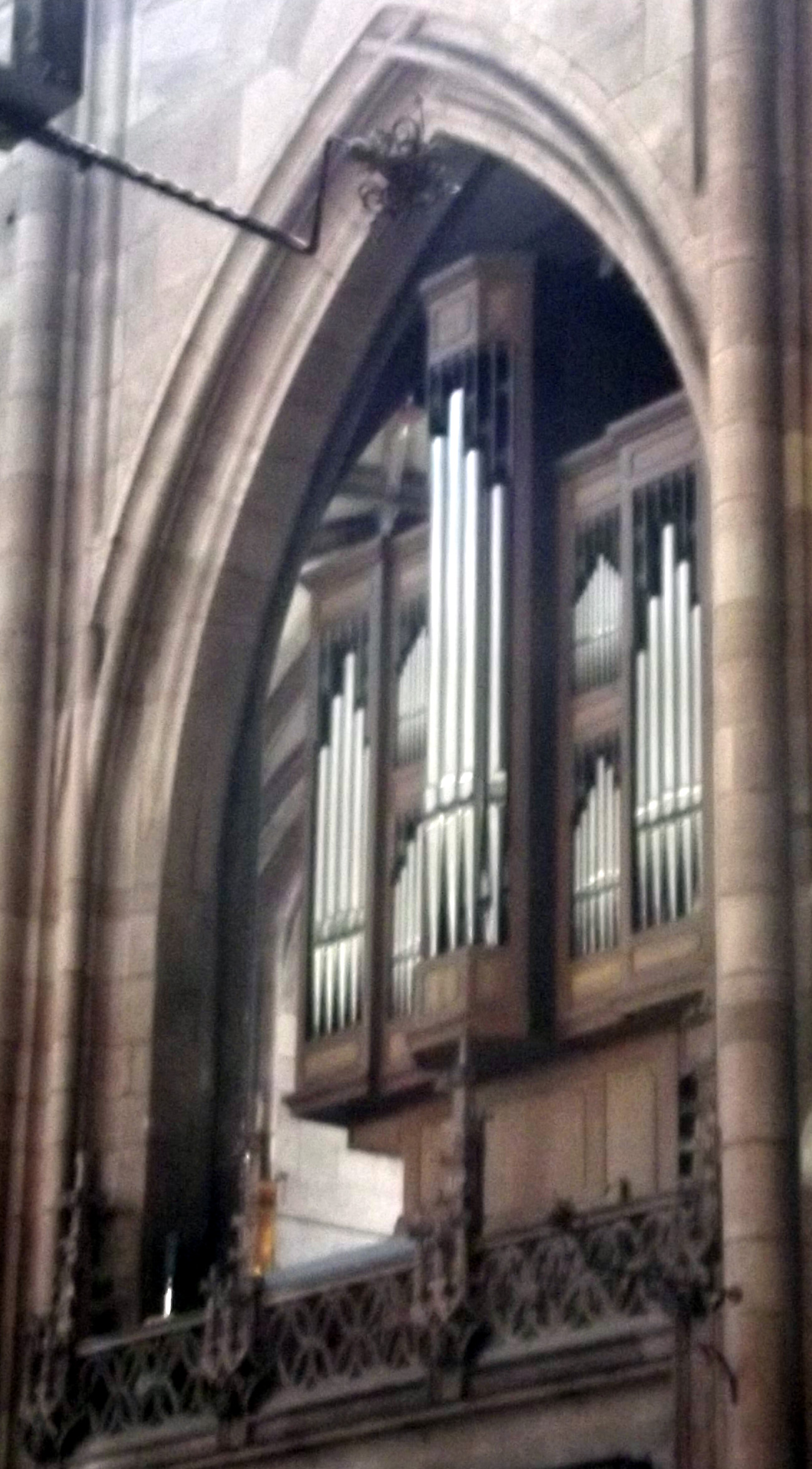 choir orgen of the freiburger münster